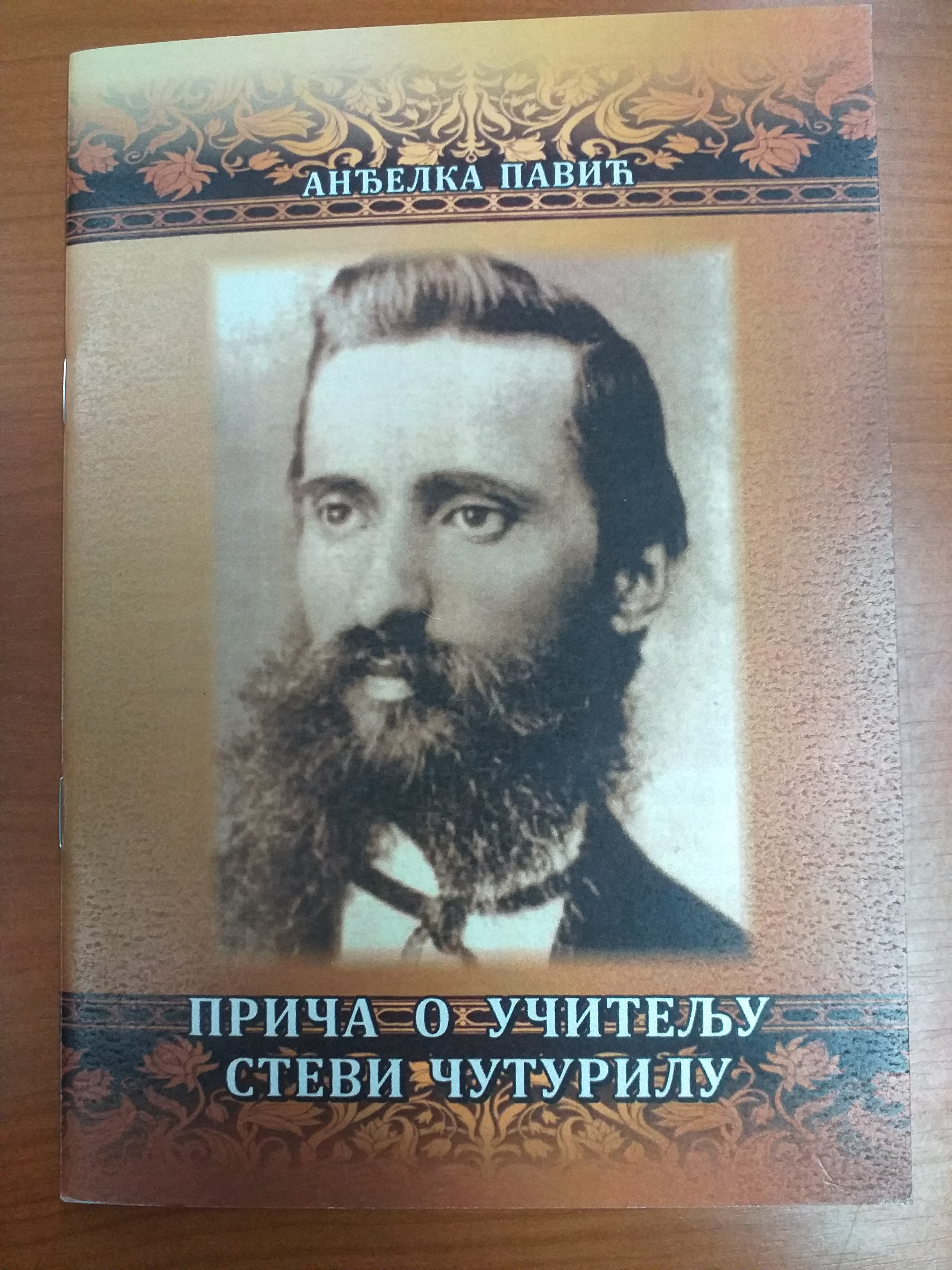 Stevo Čuturilo